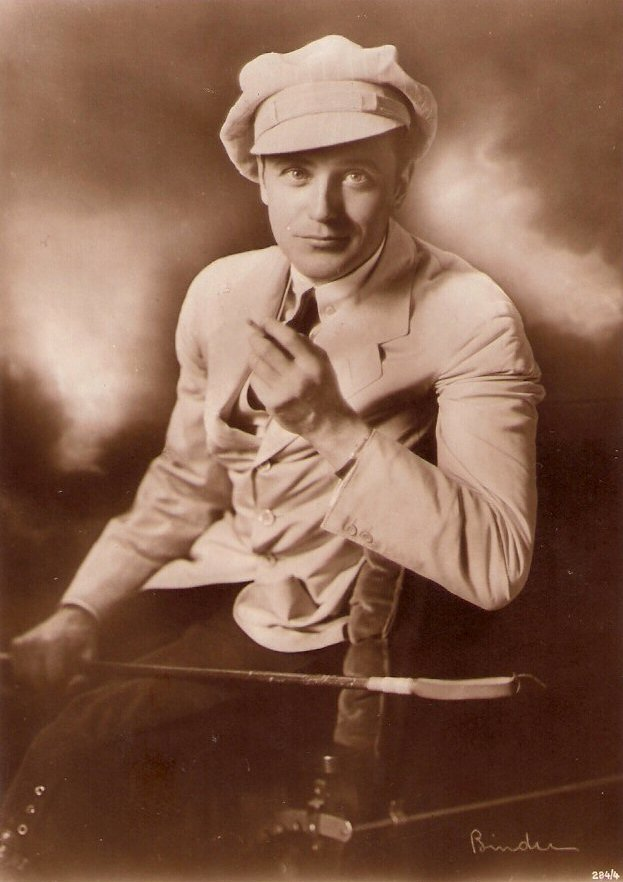 Harry Liedtke